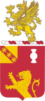 119TH FIELD ARTILLERY REGIMENT coat of arms Description/Blazon Shield Gules, in sinister chief the badge of the First Corps of the Spanish-American War Argent and in base issuant a demi-lion rampant Or; on a canton of the last (Or) a bend of the first (Gules) charged with three alerions of the third (Or). Crest That for the regiments and separate battalions of the Michigan Army National Guard: On a wreath of the colors Argent and Gules, a griffin sergeant Or. Motto VIAM PRAEPARAMUS (We Prepare The Way). Symbolism Shield The baptism of fire of this regiment occurred in the Toul Sector; this is represented by the canton, the arms of Lorraine. The silver badge of the Second Division of the First Corps of the Spanish-American War is displayed in sinister chief. History shows that for a great many years the district around what is now the City of El Paso, Texas, was known as Ponce de Leon's Ranch, having been settled and colonized by a group of the followers of that explorer, and who named their new home after their leader. The lion issuant is, therefore, taken from Ponce de Leon's crest, to denote service on the Mexican Border at El Paso, Texas. Crest The crest is that of the Michigan Army National Guard. Background The coat of arms was originally approved for the 119th Field Artillery Regiment on 18 April 1925. It was redesignated for the 119th Artillery Regiment on 2 September 1960. The insignia was redesignated for the 119th Field Artillery Regiment on 11 July 1972.